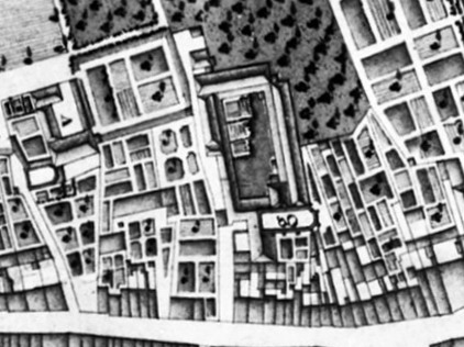 Maastricht, the Netherlands. Detail of a map showing a part of the city in 1749. The map by French military engineer Jean-Baptiste Larcher d'Aubencourt was used to built the Maquette of Maastricht (1752), now in the Musée de Beaux Arts in Lille, France. Here to the left: the monasteries of the Alexians (Cellebroeders). In the centre: the Franciscanesses of Peer (Dal van Josaphat or Beyart).